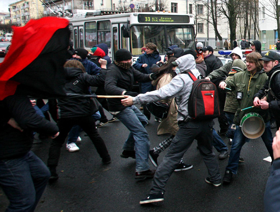 Драка между анархистами и националистами на социальном марше